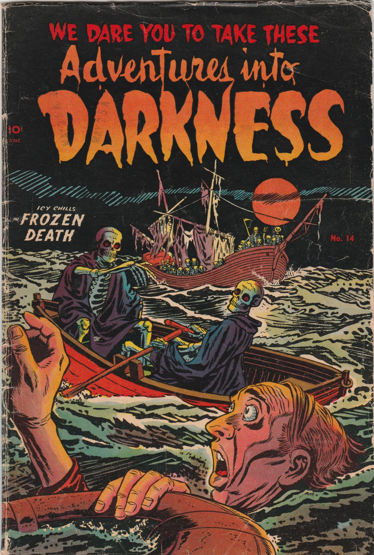 Cover of Adventures Into Darkness #14, June 1954